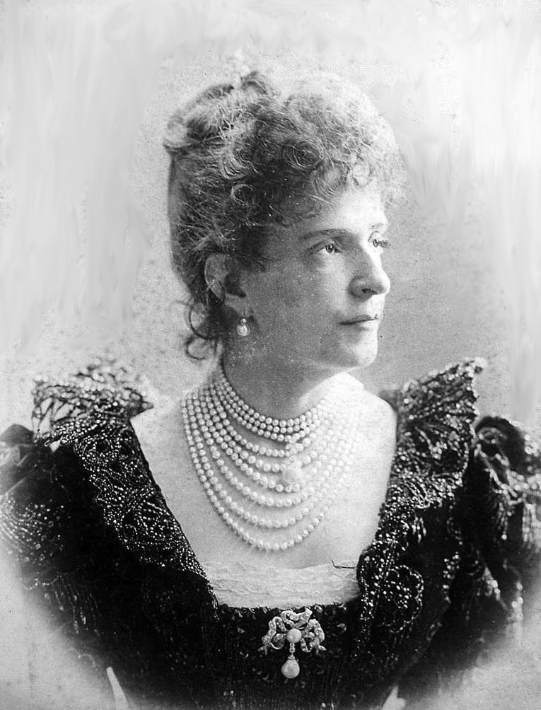 Maria Pia of Savoy, dowager queen of Portugal